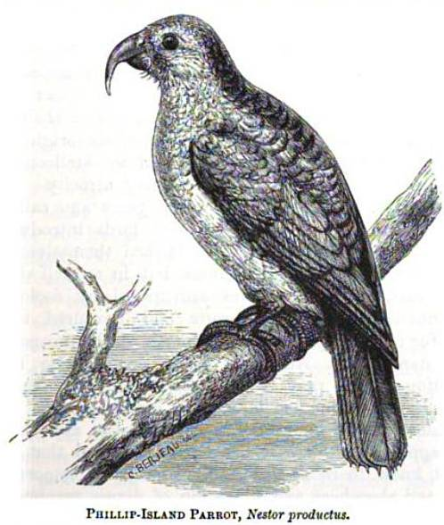 More detailed drawing of Nestor productus than the EB version of 1911.